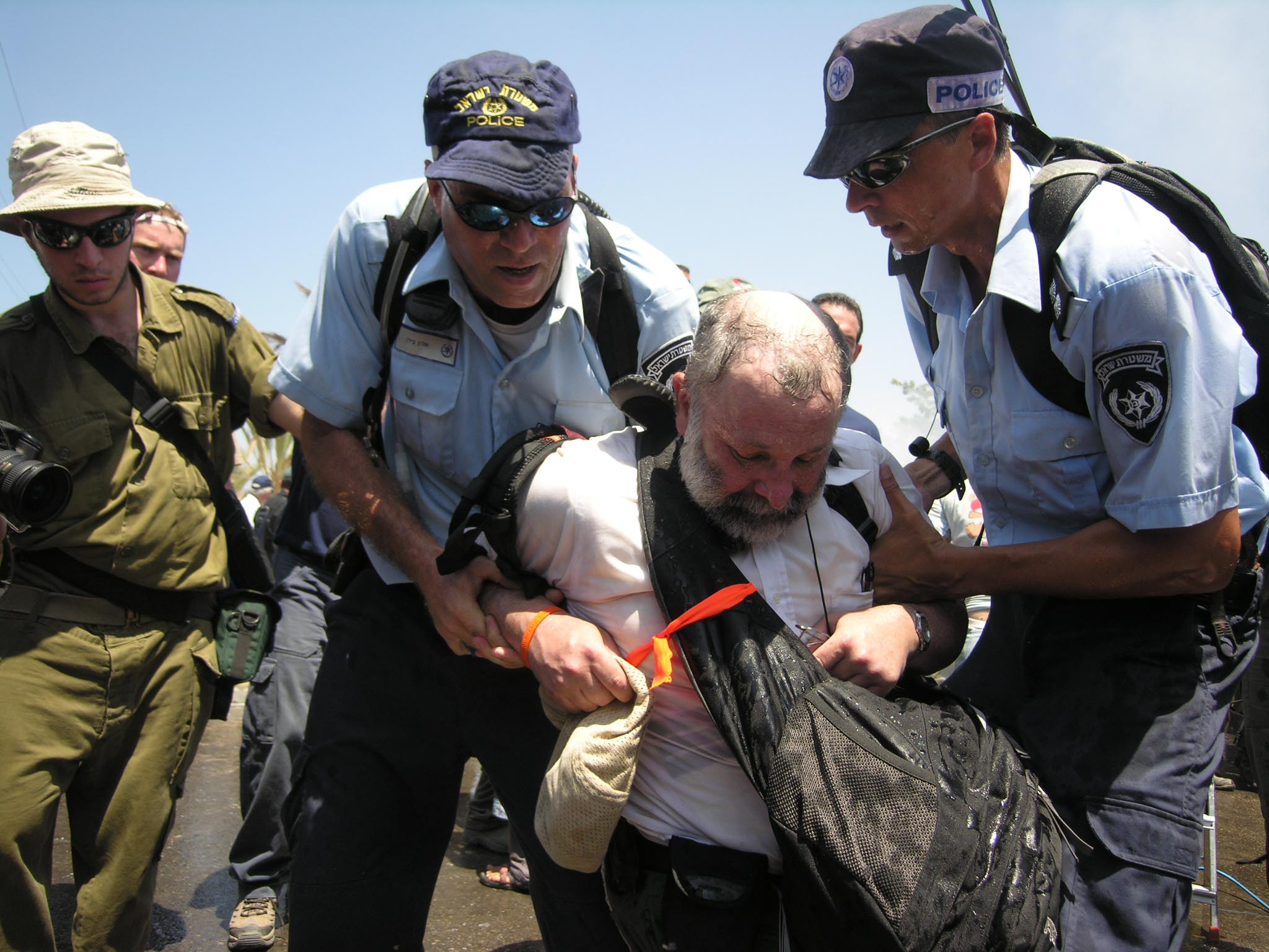 August 16, 2005. The residents of the Israeli community Neve Dekalim riot during the forced evacuation of their homes. The evacuation of Neve Dekalim was part of the Gaza Disengagement, which occurred during the summer of 2005.